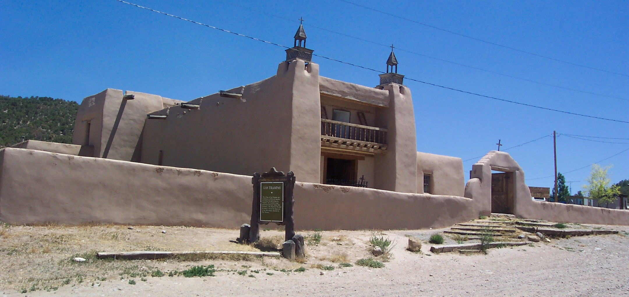 Adobe facade and gate of San José de Gracia Church — in the Las Trampas Historic District, Las Trampas, New Mexico. Note the level of damage on another photo in Category taken in May 2005.